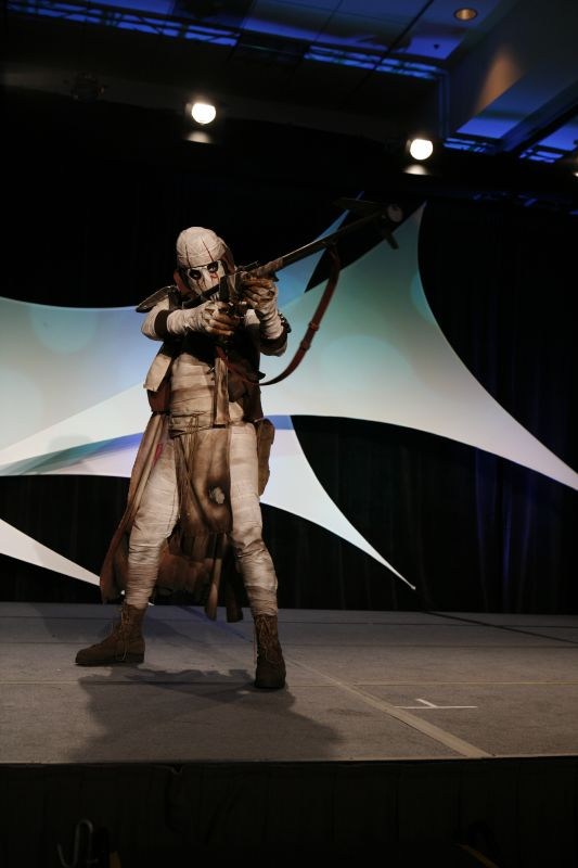 Photo by Scott Ruether. Read more at the Official Celebration IV blog. Costumes at Star Wars Celebration IV in 2007 at the Los Angeles Convention Center in Los Angeles.